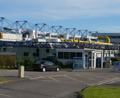 Inmos factory, Newport, Wales.